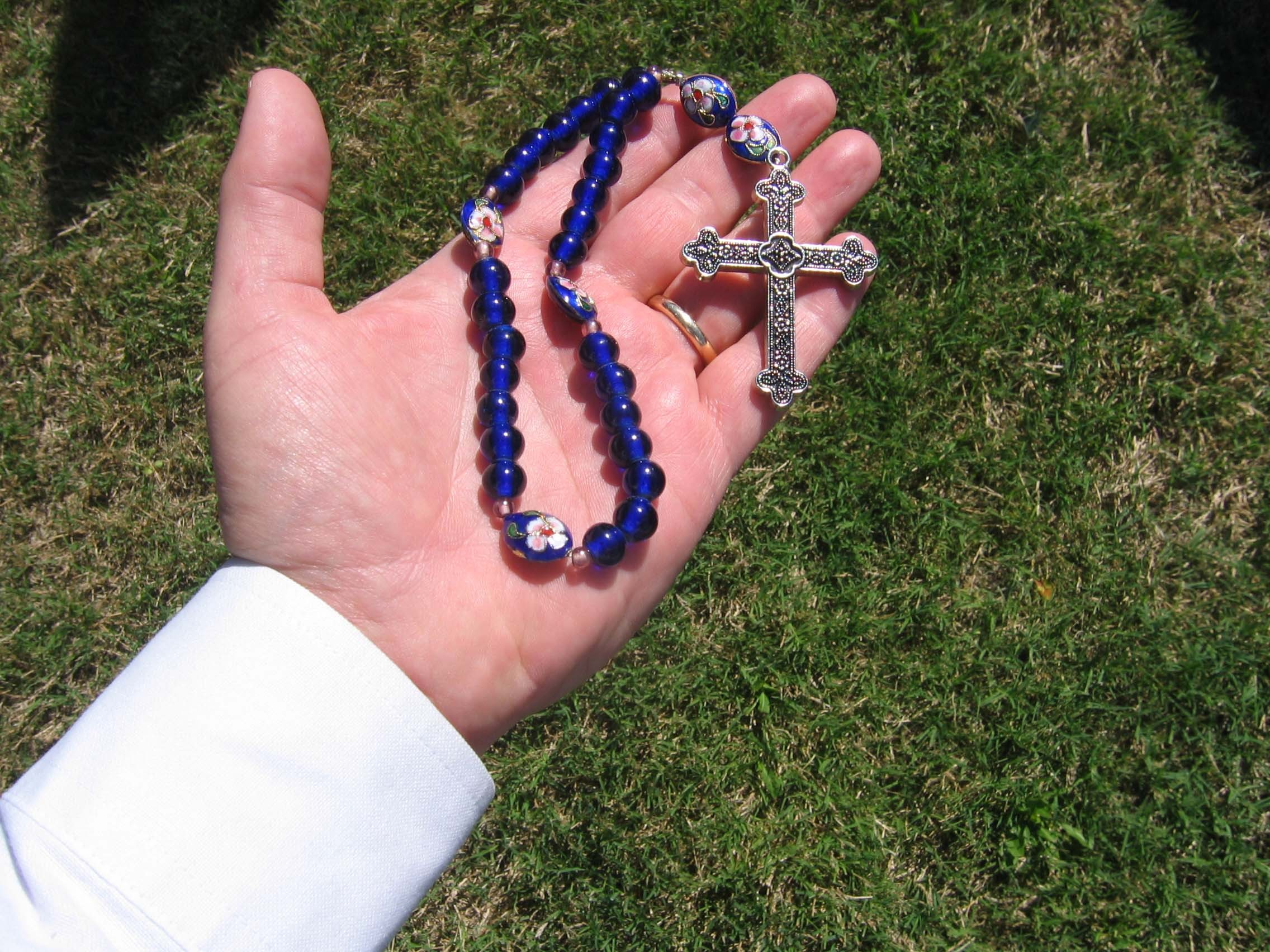 This is a photograph of Anglican prayer beads. These are my prayer beads and I took this photograph. You are welcome to use it. Sarum blue| 20:48, 8 April 2006 (UTC) These prayer beads were made by Amanda Eden. Summary This is a photograph of Anglican prayer beads. These are my prayer beads and I took this photograph. You are welcome to use it. Sarum blue 20:48, 8 April 2006 (UTC) These prayer beads were made by Amanda Eden.